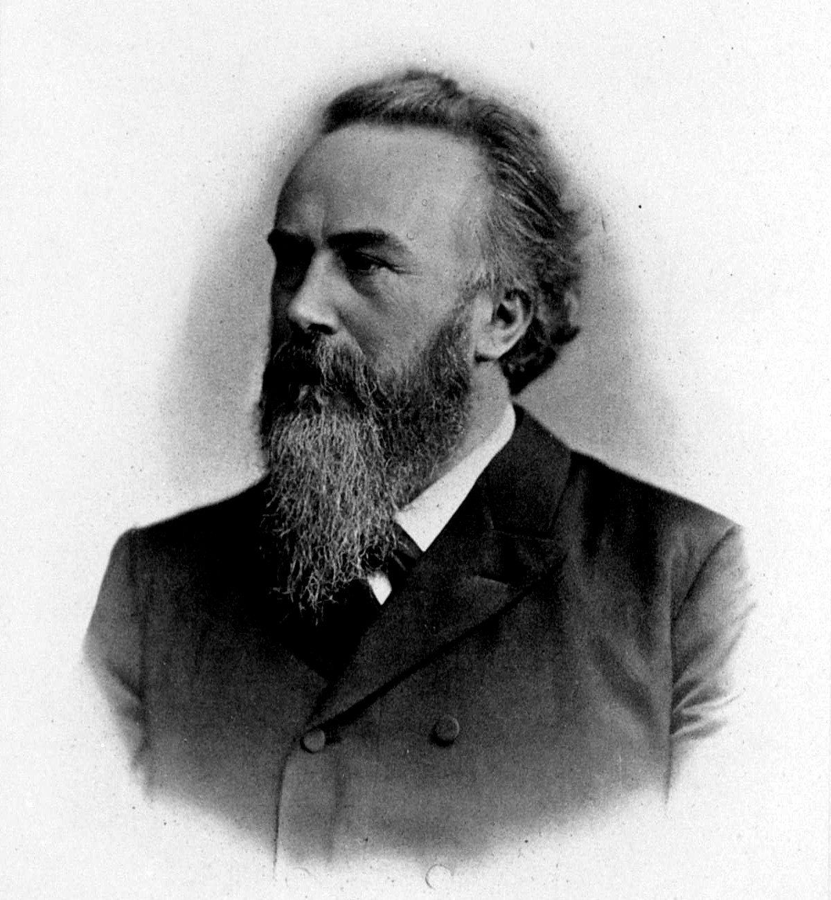 Philipp Spitta (27th Dezember 1841 - 13th April 1894)